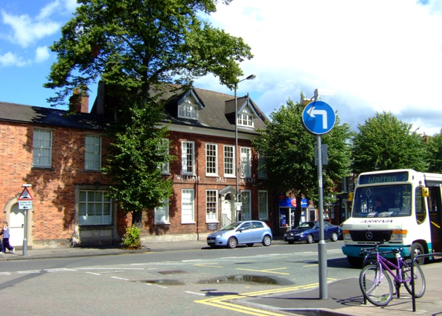 The William Salt Library, Stafford, England. William Salt [1808 -1863] was a London banker whose family originated from Staffordshire. He founded one of the first public banks in Stafford, but although he frequently visited the town and bought property he never lived there. He was collector of topographical and genealogical books and manuscripts and became a Fellow of the Society of Antiquarians. When he died his widow agreed to donate his books and manuscripts to the County of Stafford. The Library was first established in 1872 and moved to its present site in Eastgate Street in 1918. Salt's Collection is still available to members of the public.